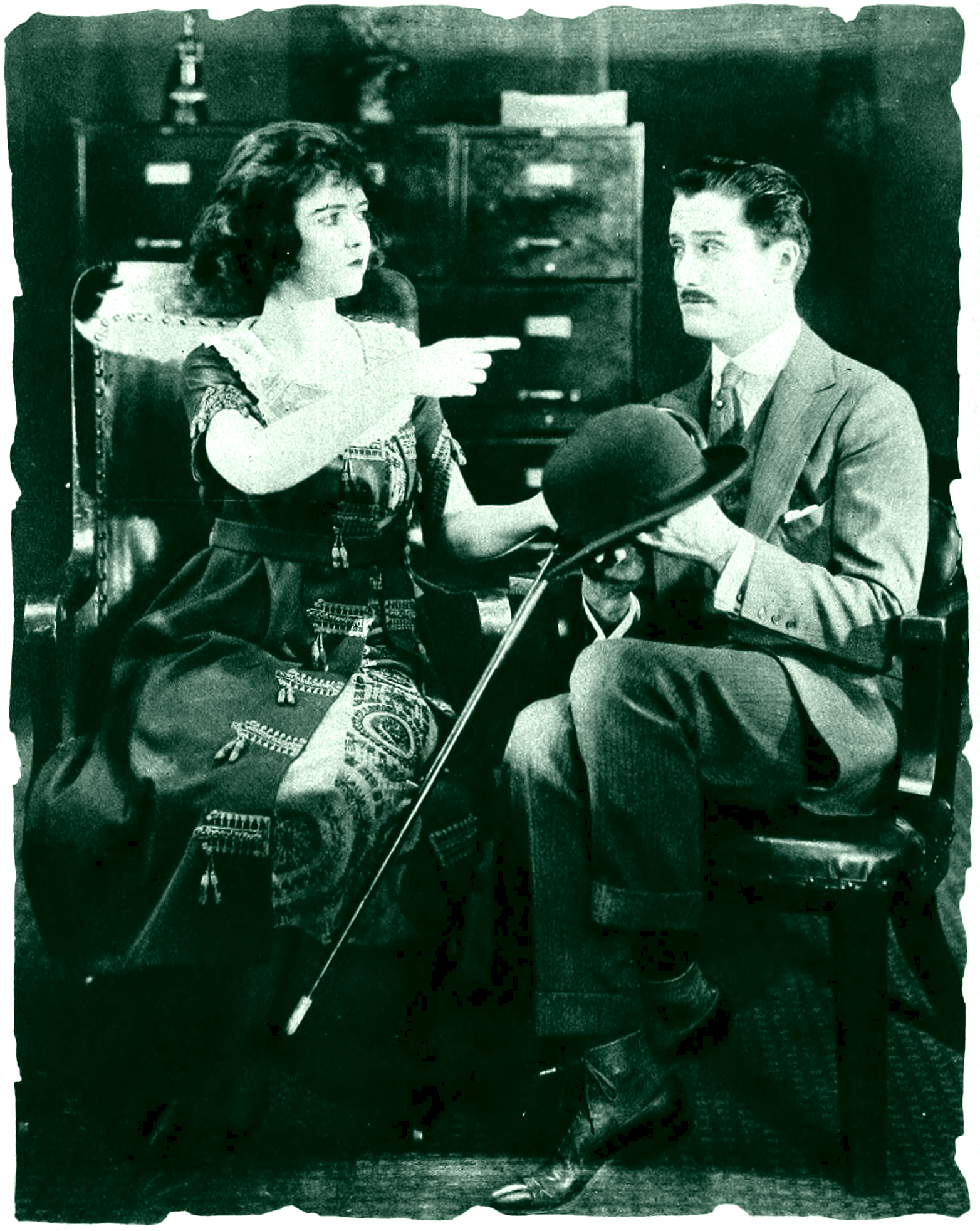 Dorothy Gish and James Rennie in a scene from Remodeling Her Husband (1920).